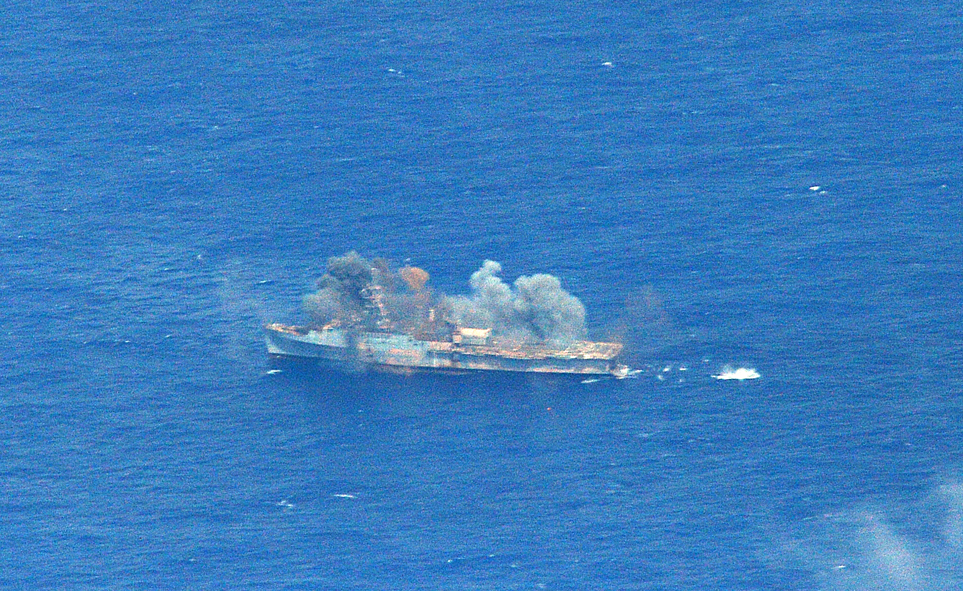 The decommissioned U.S. Navy dock landing ship USS Ogden (LPD-5) is hit by a Naval Strike Missile (NSM) from the Royal Norwegian Navy frigate KNM Fridtjof Nansen (F 310) during a Sink Exercise (SINKEX) as part of Rim of the Pacific (RIMPAC) 2014.